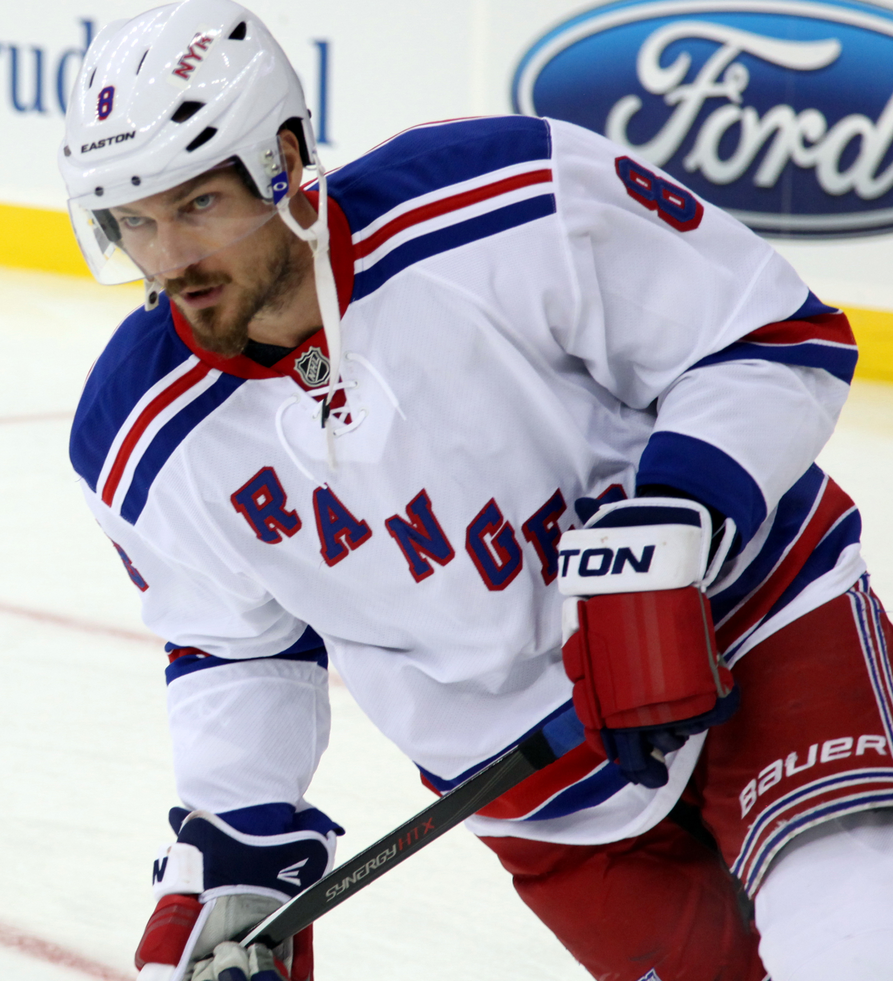 Klein as a Ranger in a preseason match in October 2014.